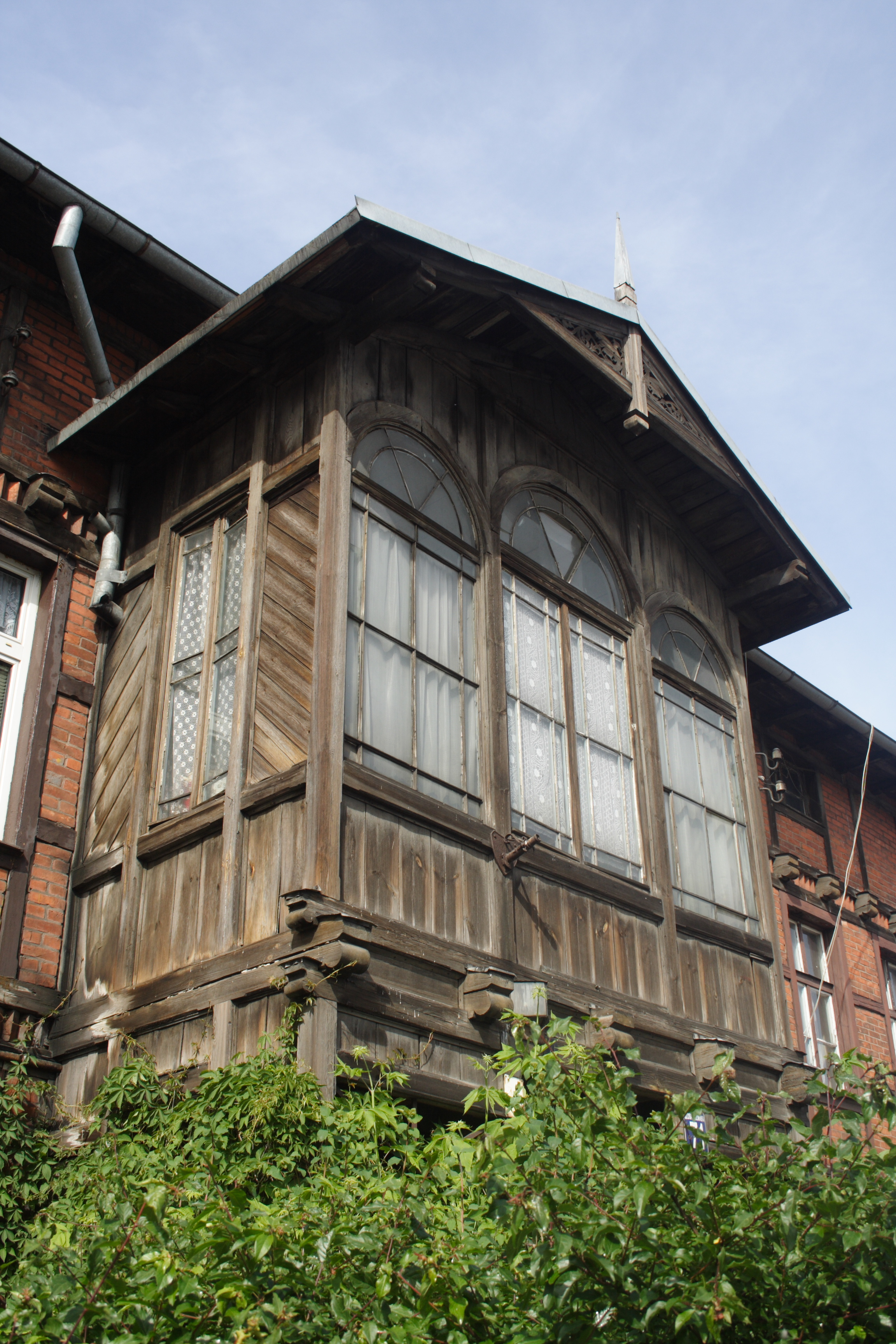 Timber-framed building from 19th century at Szosa Chelminska Str. in Toruń